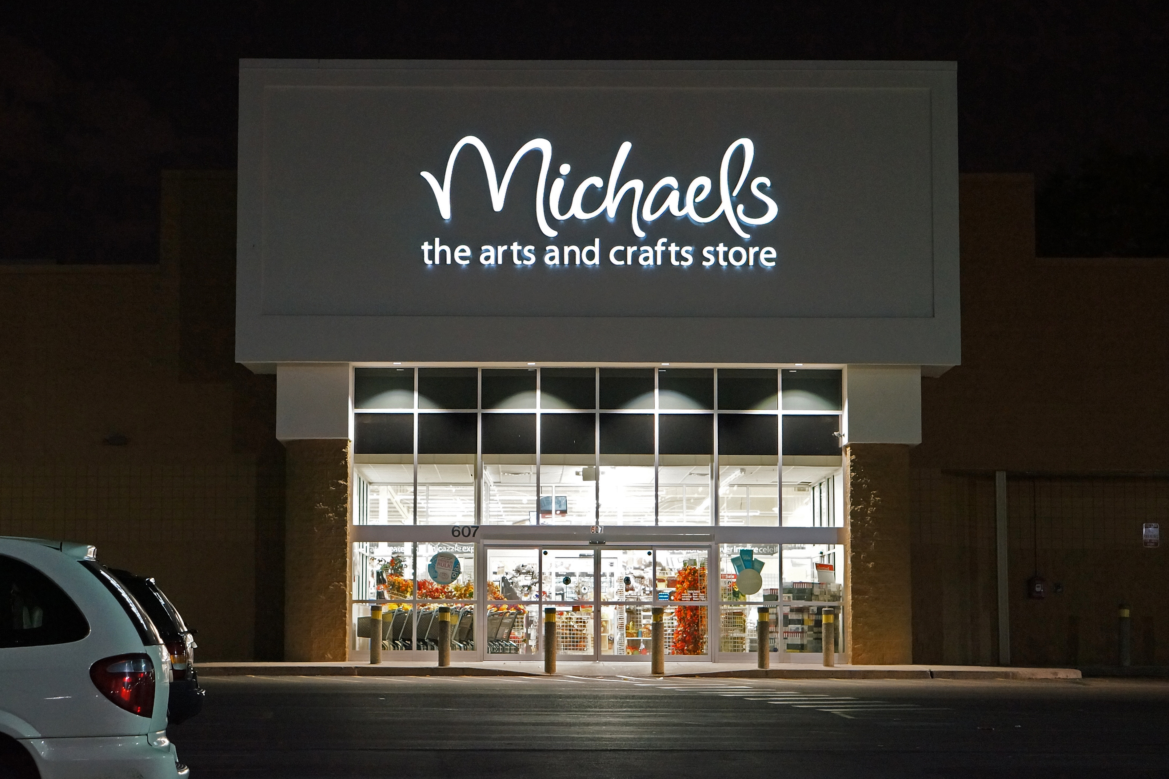 Michaels Arts And Crafts store - Saugus, Massachusetts